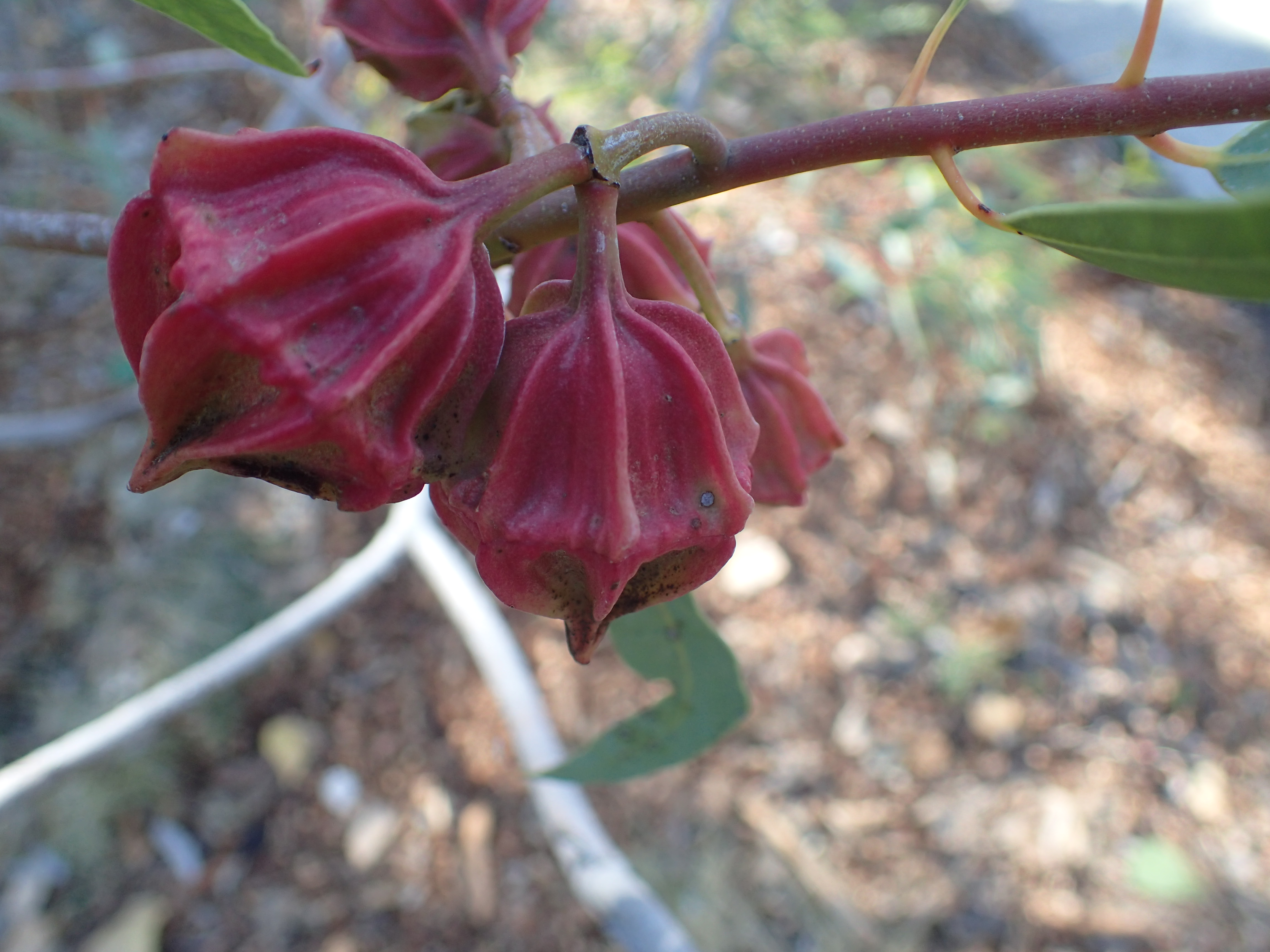 Flower buds of Eucalyptus kingsmillii in Kings Park, Perth